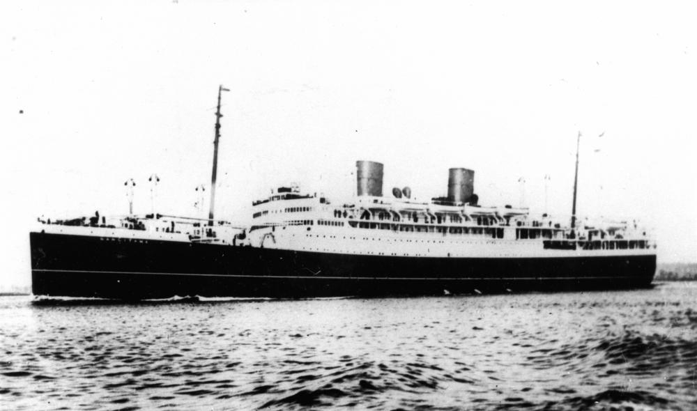 Rangitane (ship)